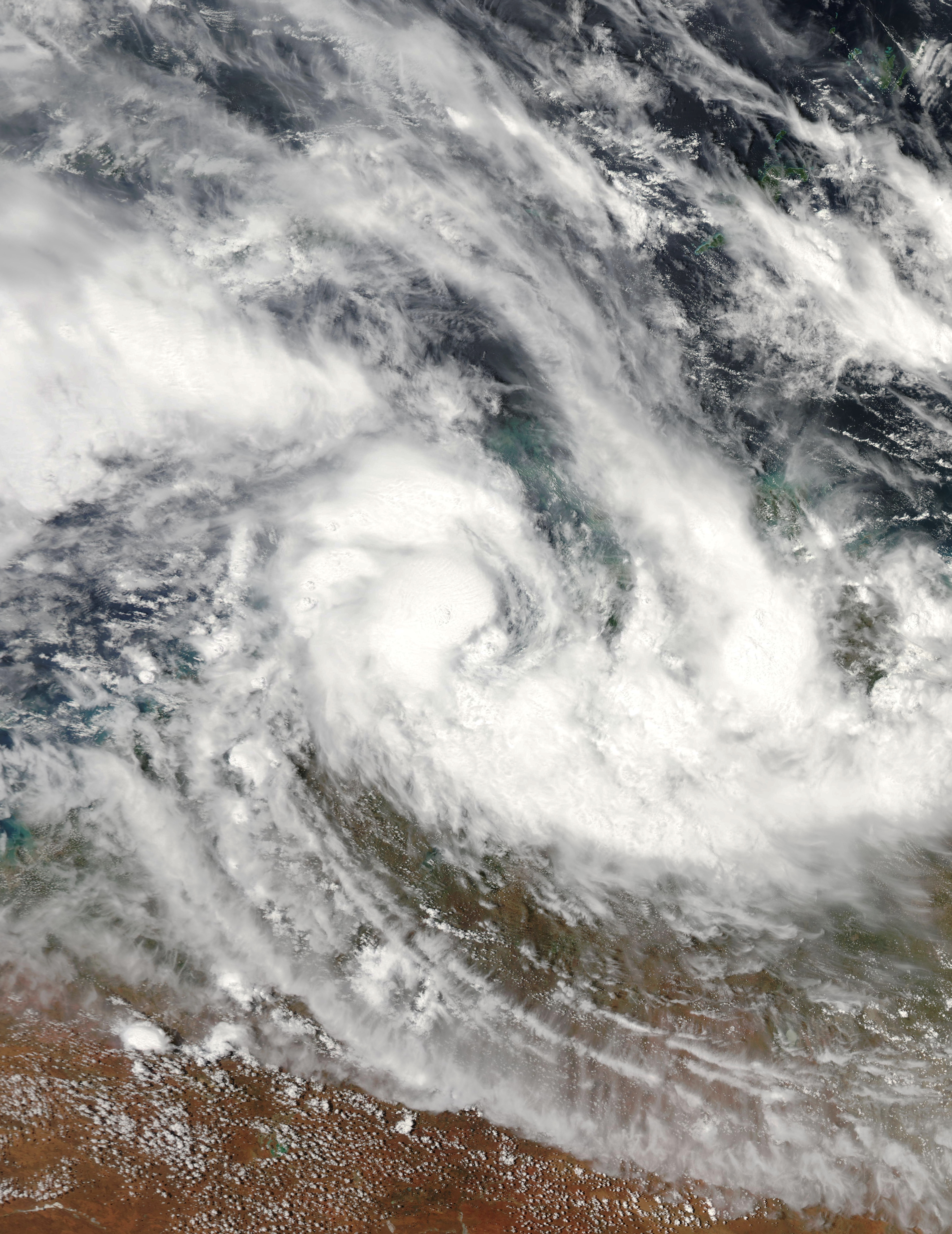 Tropical Cyclone Helen, seen from MODIS on the Aqua satellite at 0450Z January 04.